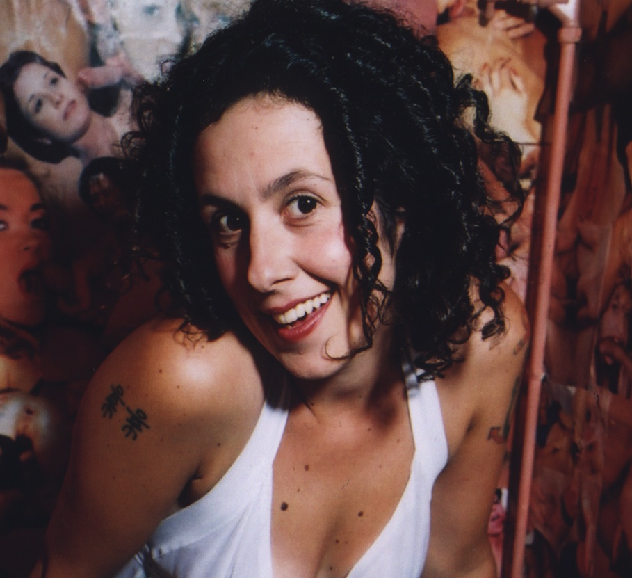 sam roddick head shot